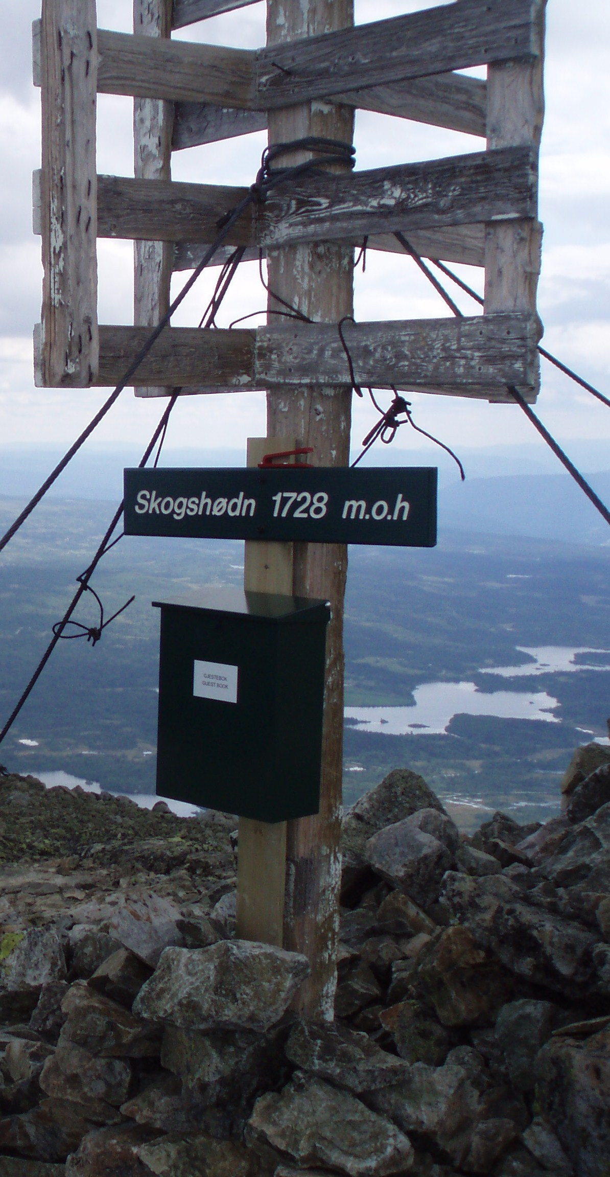 The signpost and box situated at the top of mount Skogshorn, Norway. Similar signposts can be found at the top of every other peak included in the Hemsedal Top 20.